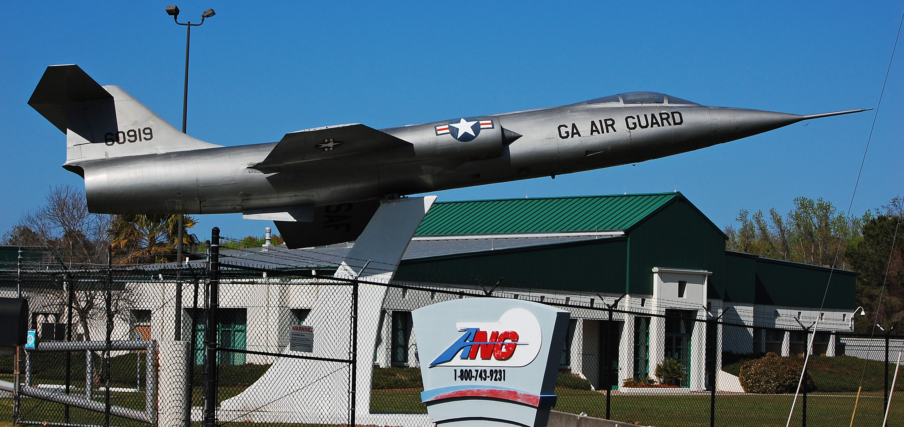 F-104 Starfighter on display at the Georgia Air National Guard, Brunswick, Georgia